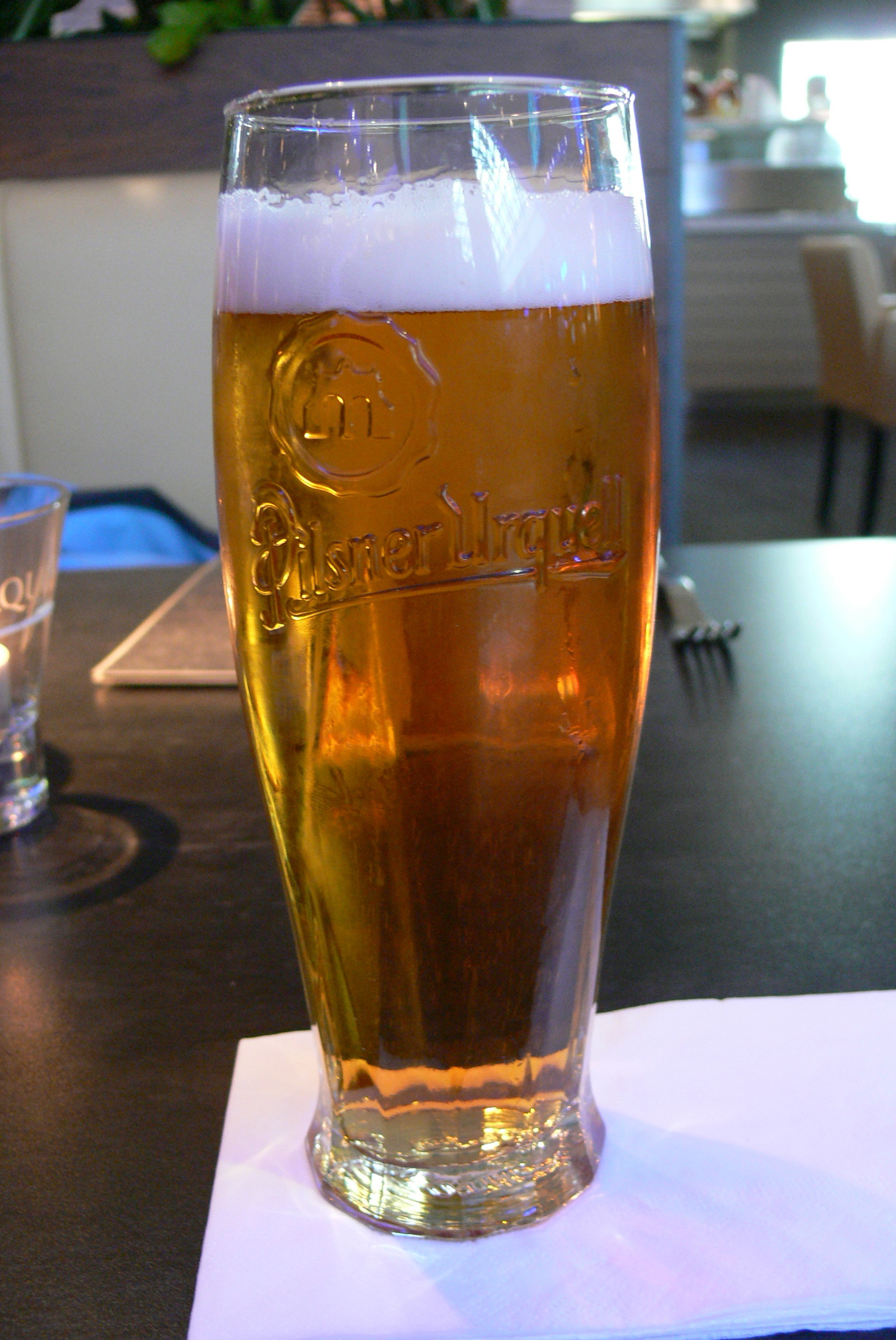 A glas of Pilsner Urquell ( Prague )